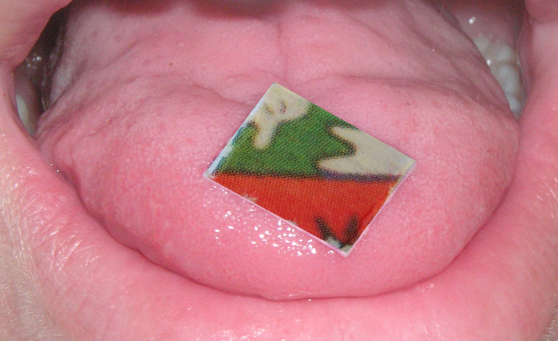 Blotter